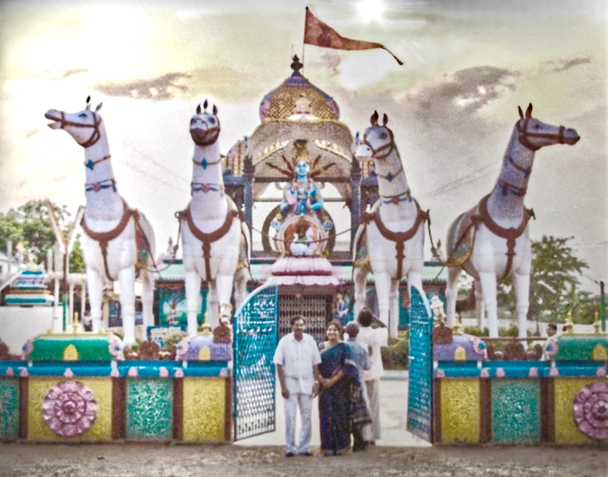 Gita Mandir Govindapuram